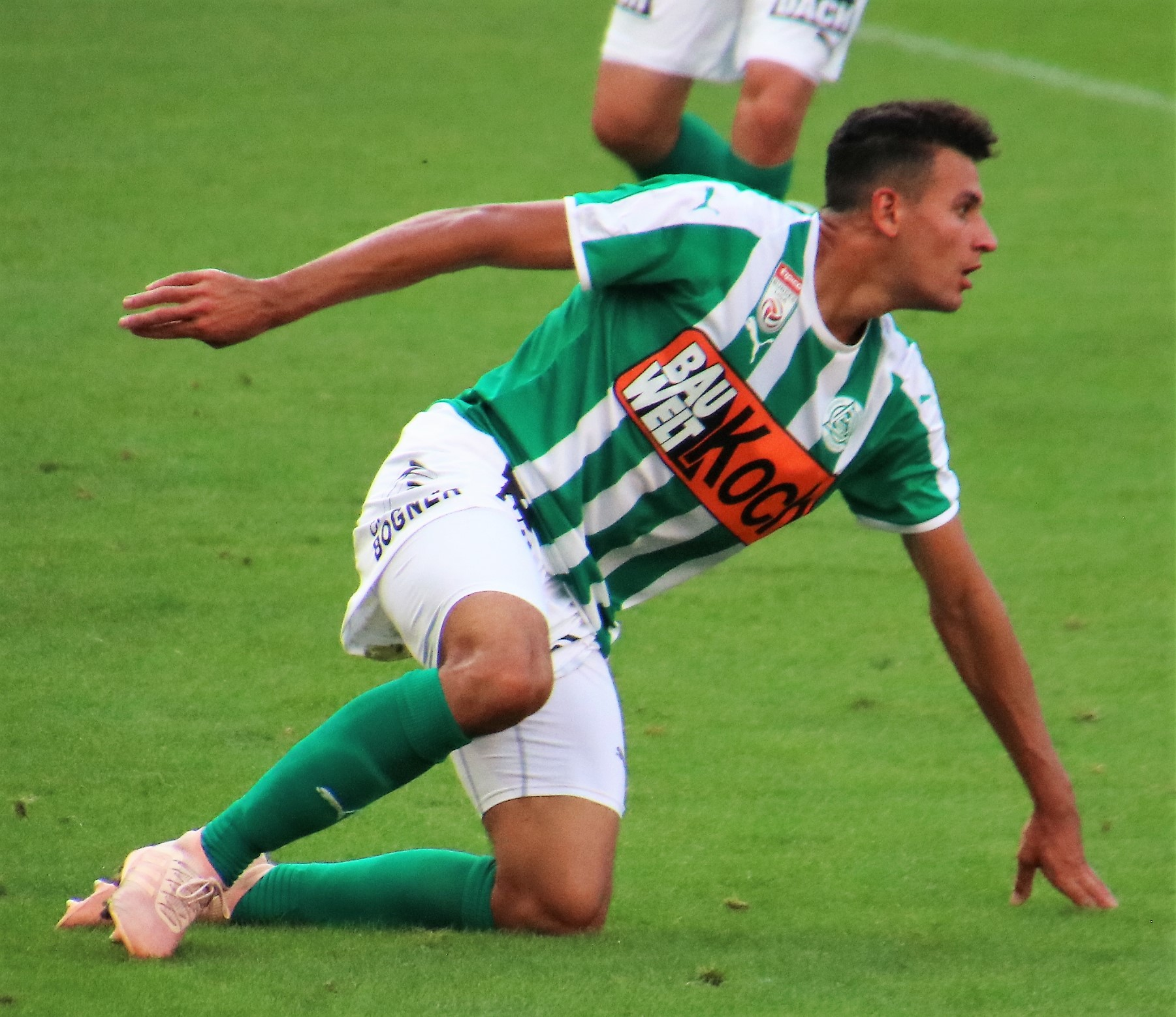 league match 2nd round Austrian Bundesliga